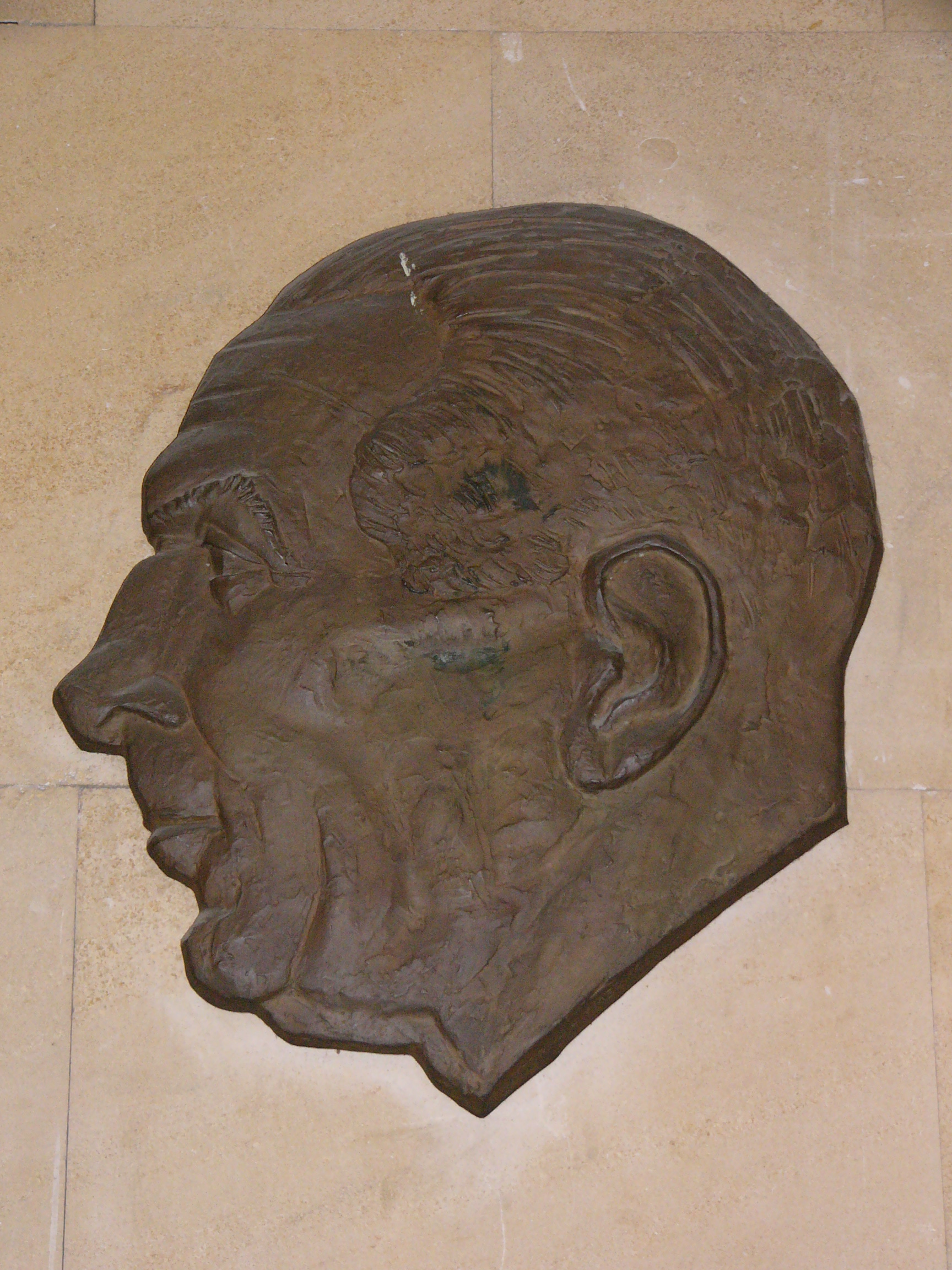 memorial plaque devoted to Rudolf Saliger in Vienna University of Technology in Wien (Austria).